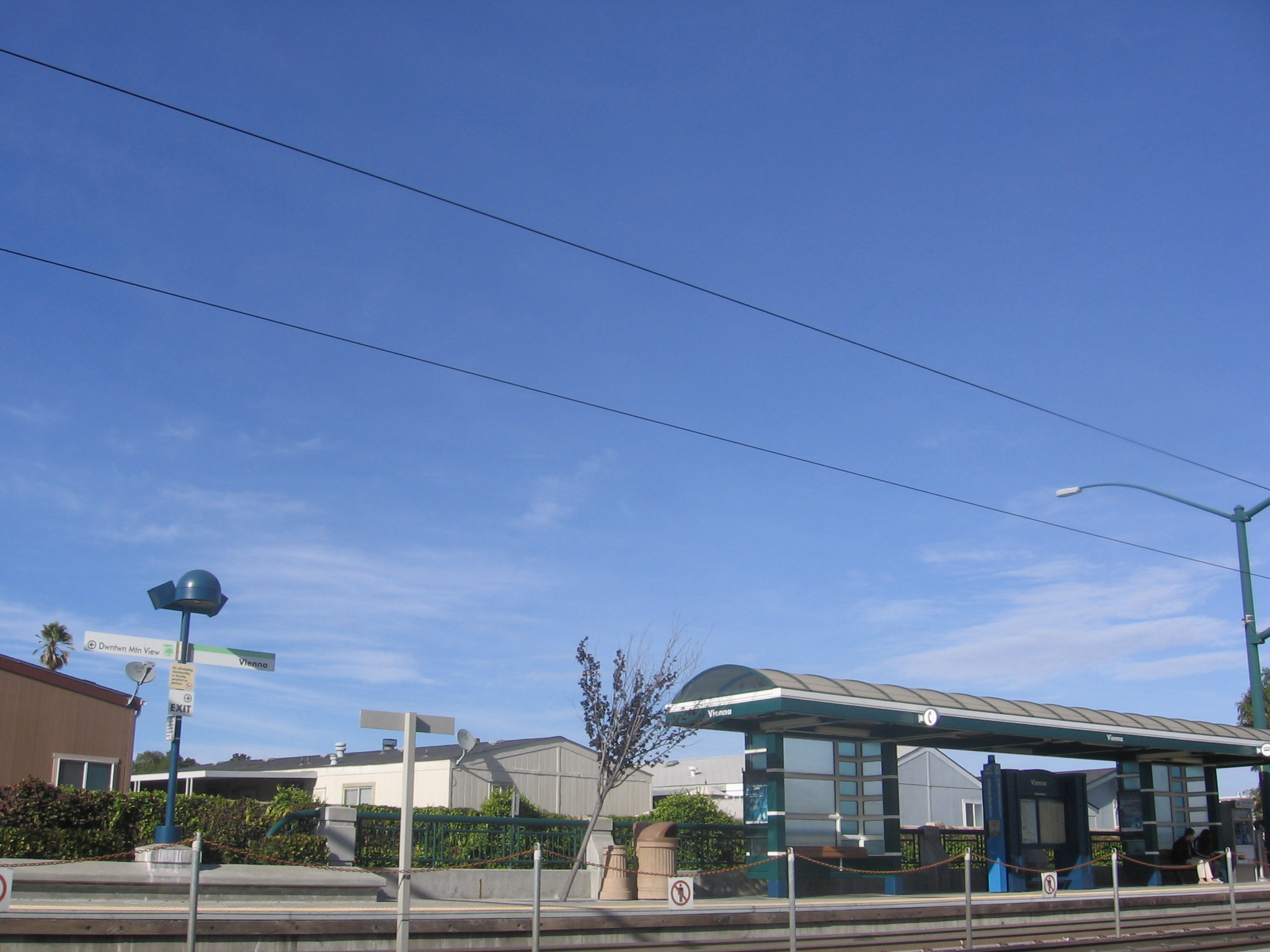 The Vienna (VTA) light rail station in Sunnyvale, California, USA.